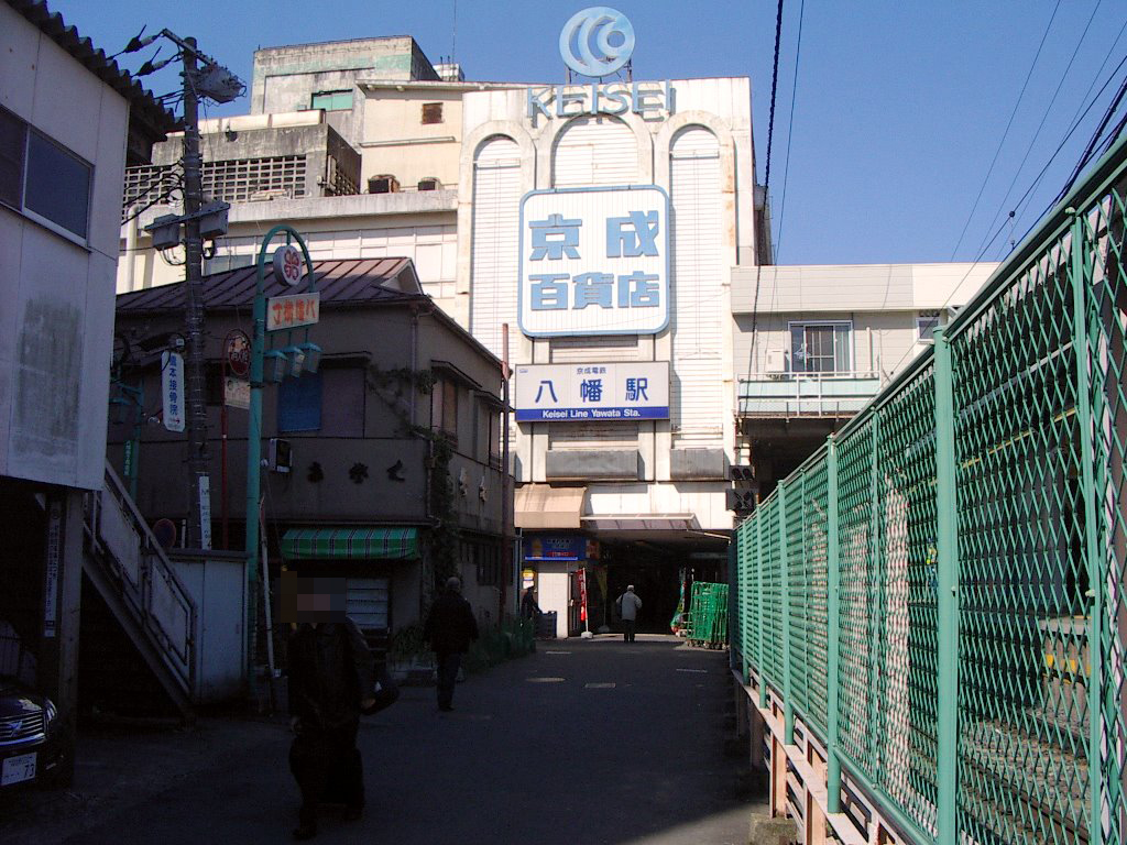 Keisei-Yawata station on Keisei main line.